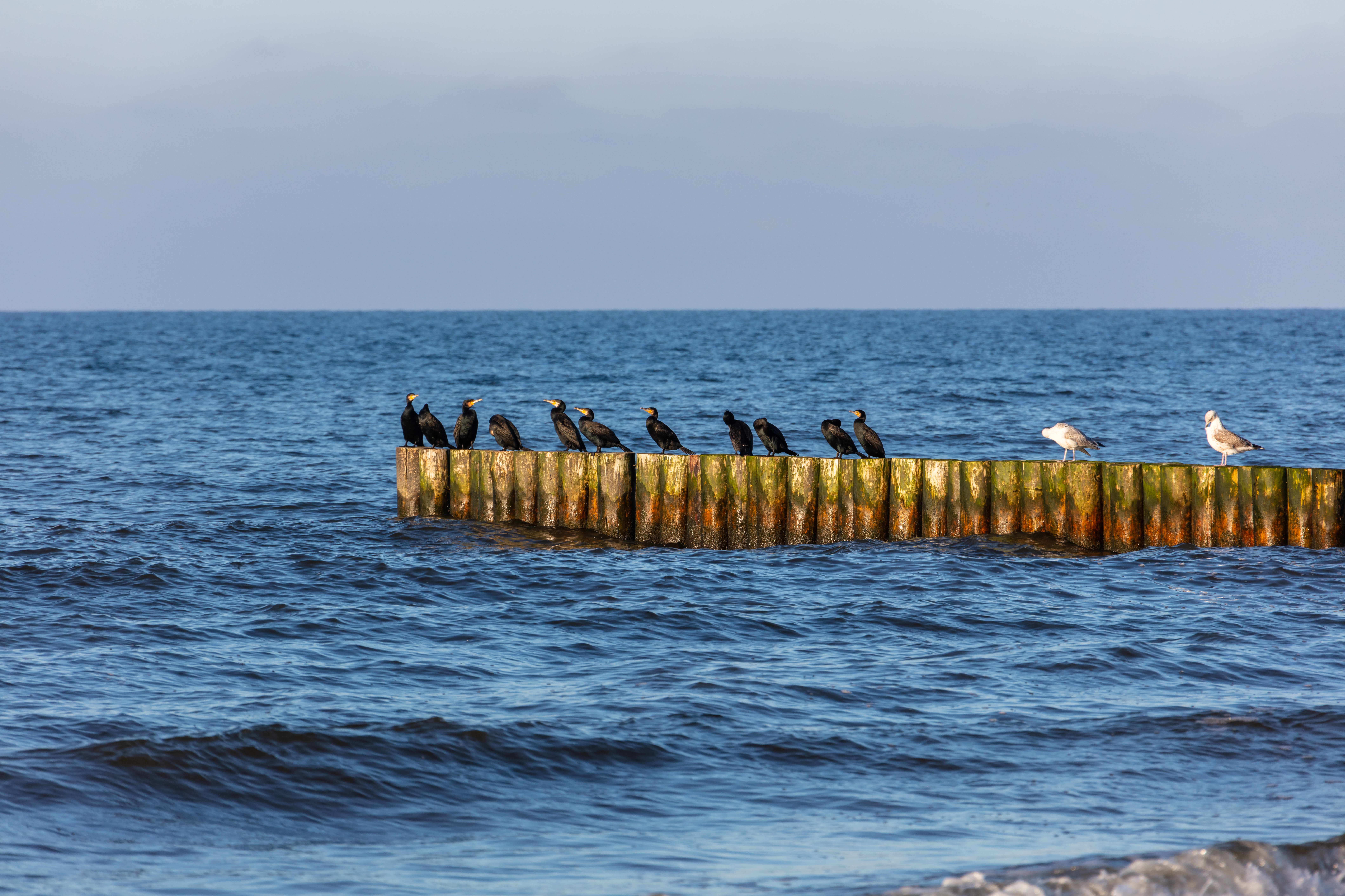 Breakwater, Trzęsacz, Poland